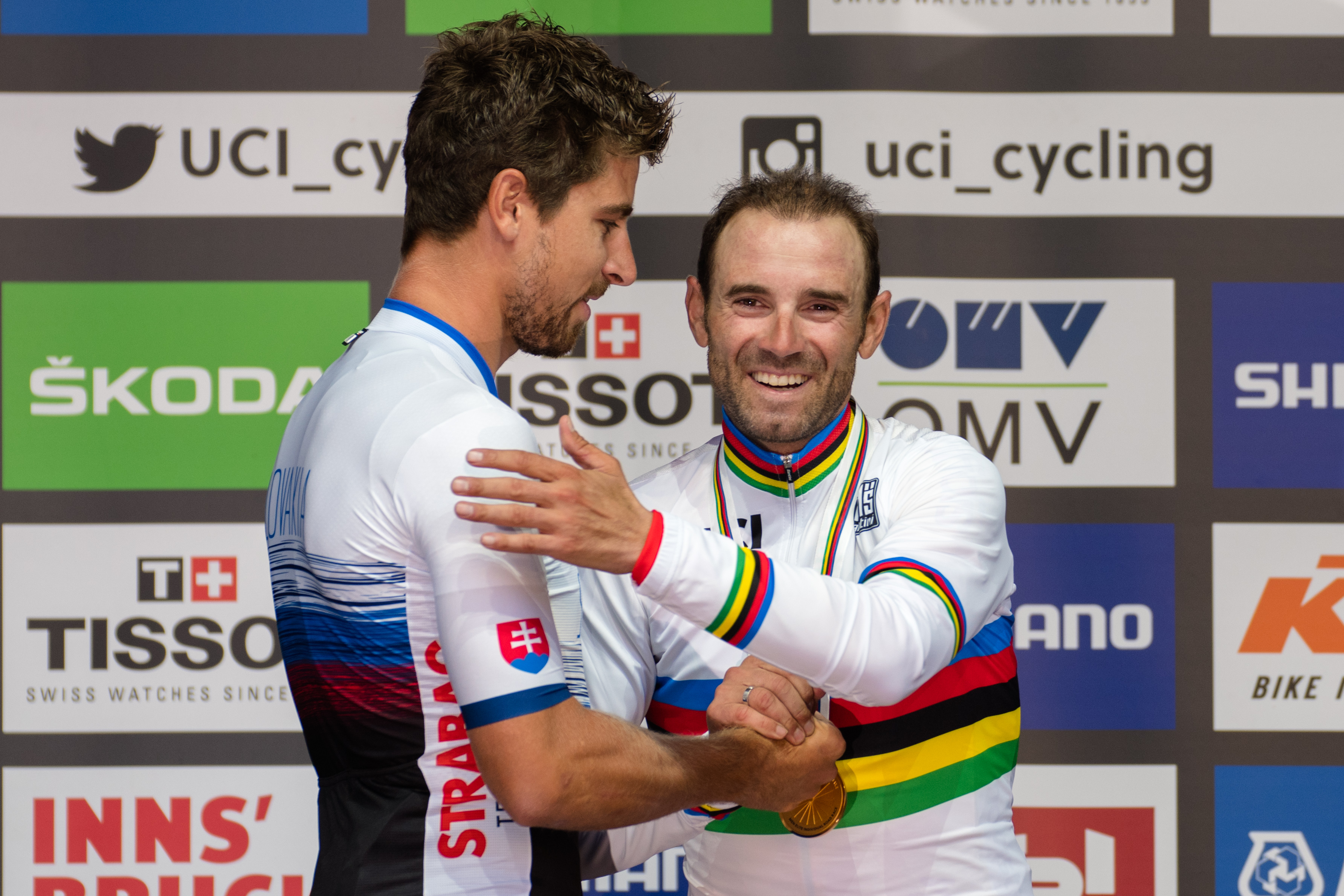 2018 UCI Road World Championships Innsbruck/Tirol Men Elite Road Race. Picture shows: Award Ceremony with Peter Sagan of Slovakia decorates the new World Champion Alejandro Valverde of Spain with the gold medal.